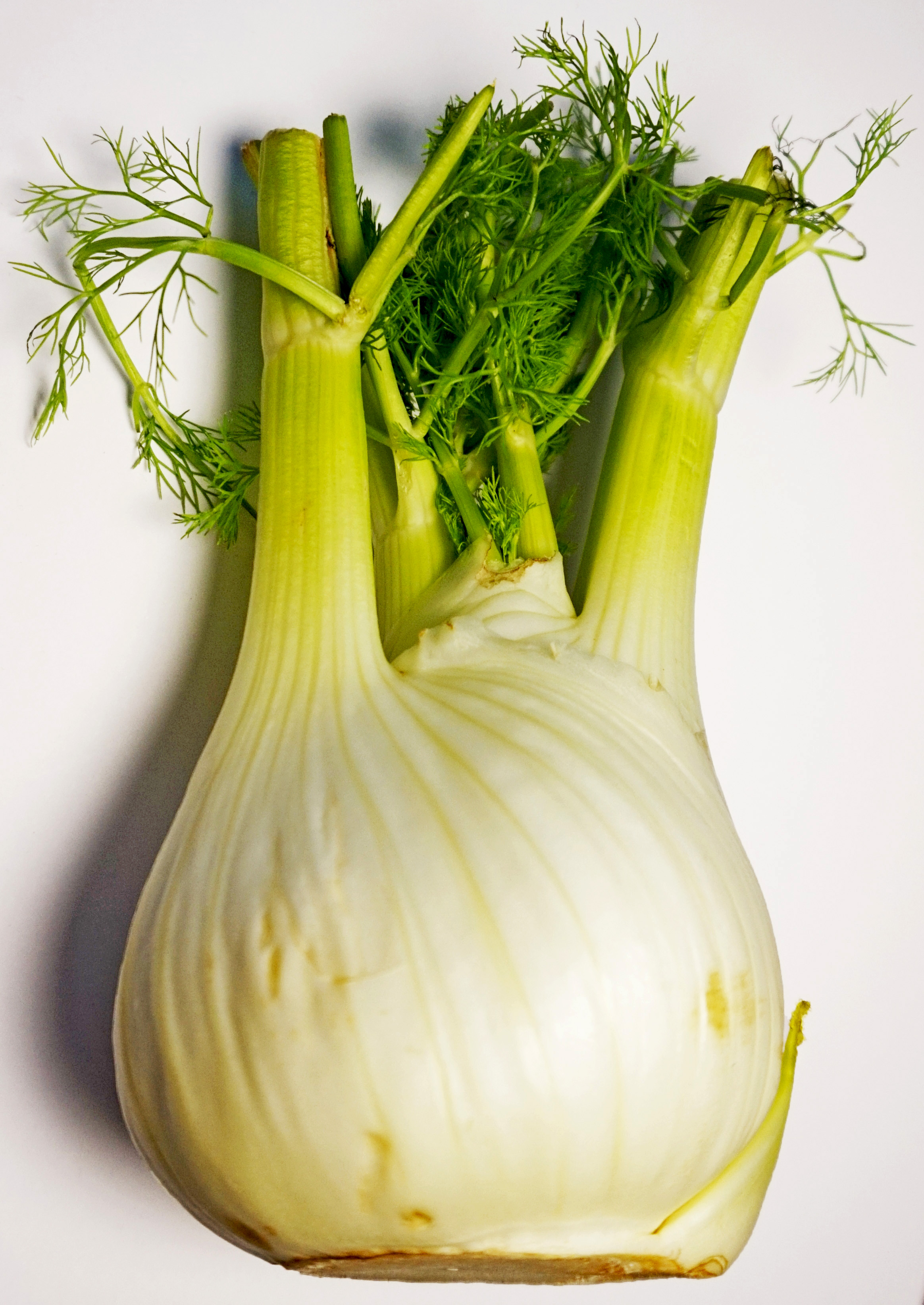 A fennel bulb.